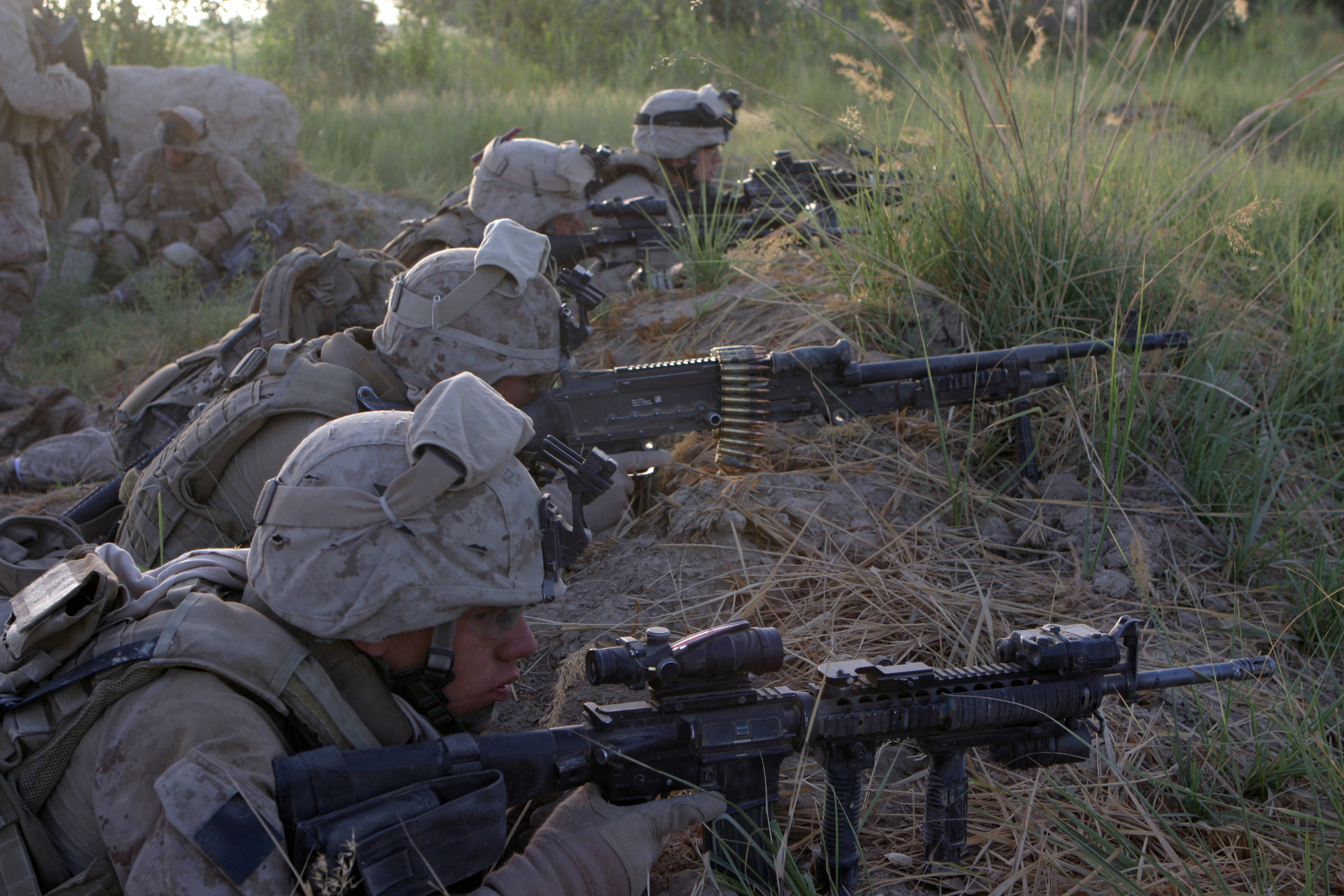 U.S. Marine Corps Marines, from Alpha Company, 1st Battalion, 6th Marine Regiment, 24th Marine Expeditionary Unit, International Security Assistance Force, operate at Garmsir, Helmand Province, Afghanistan, April 29, 2008, during Operation Enduring Freedom. (U.S. Marine Corps photo by Cpl. Alex C. Guerra) (Released)